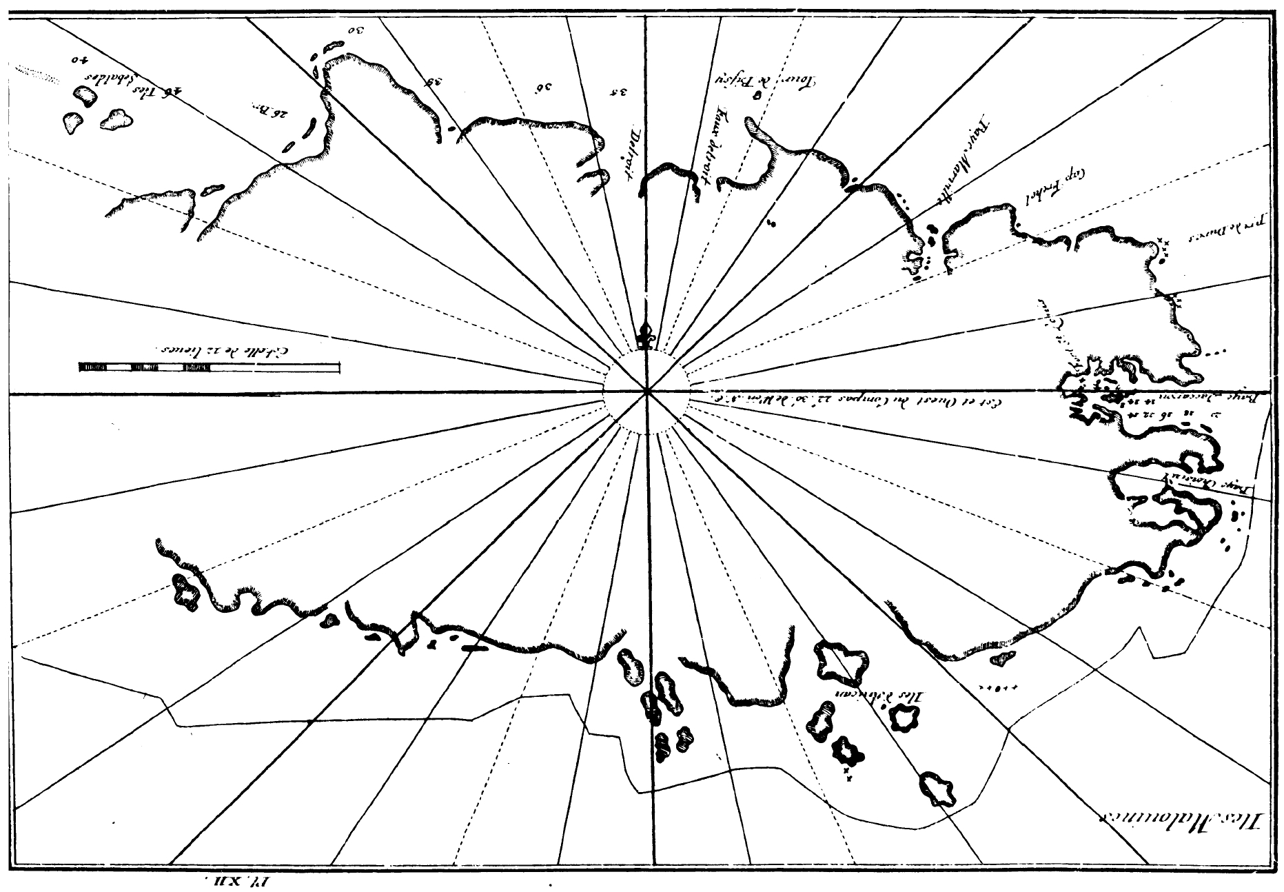 Map of the Falkland Islands (Dom Pernety, 1769). The original South-Up map is turned upside down for easier coastline recognition.